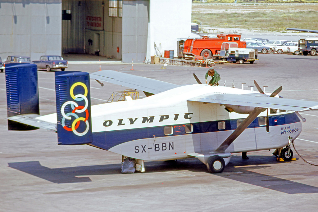 Short SC.7 Skyvan SX-BBN of Olympic Airways at Athens Hellenikon airport in 1973